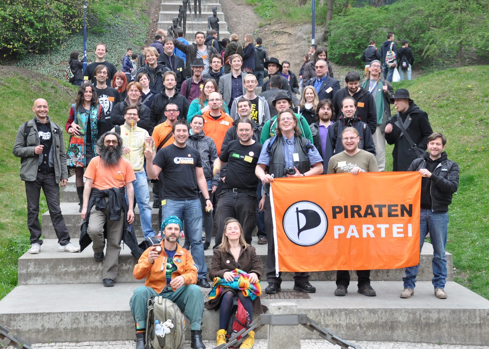 Conference of Pirate Parties International in April 14.-15. 2012 in Prague